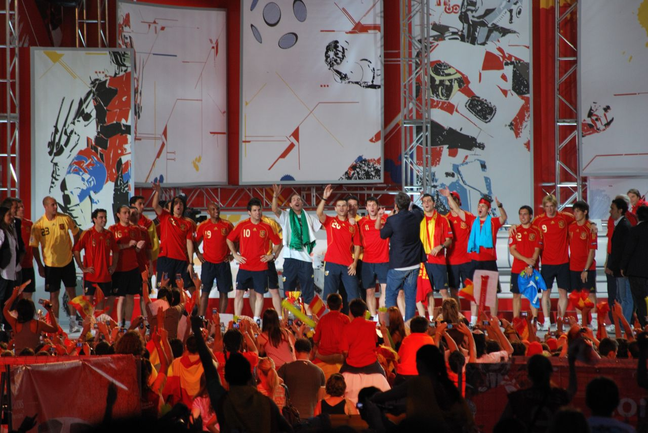 Spain national football team celebrating its Euro 08 championship.